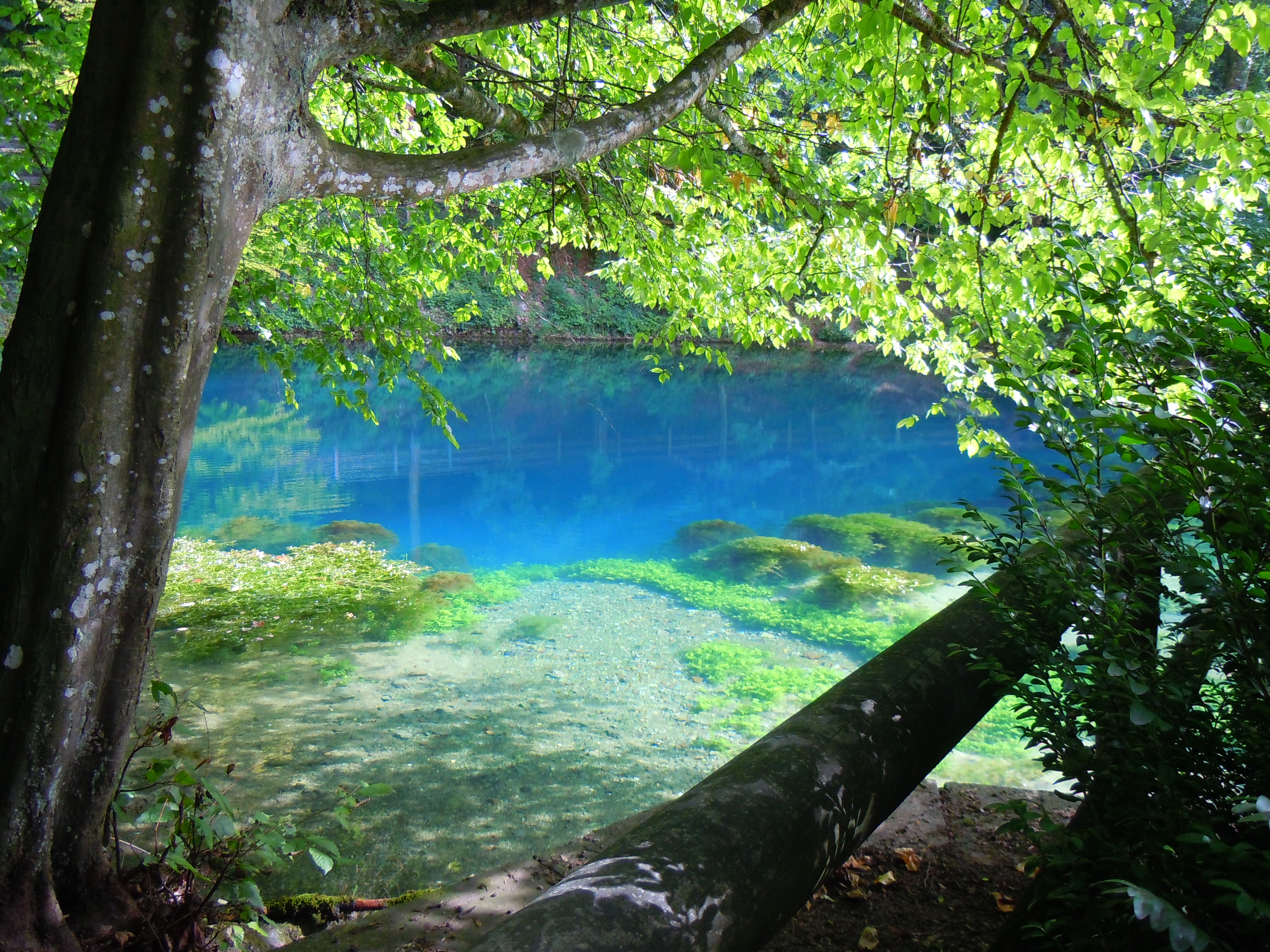 Germany Blautopf Blaubeuren